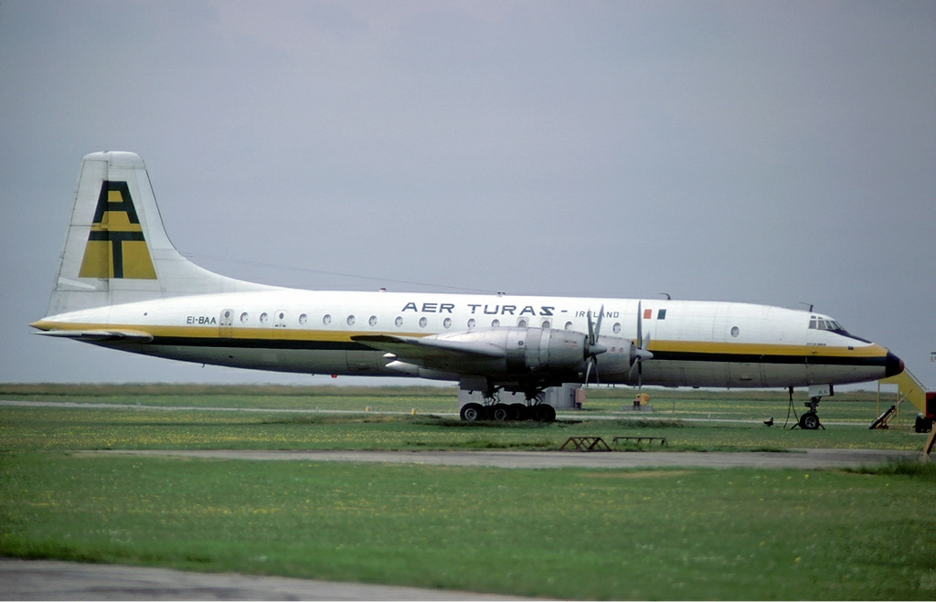 Aer Turas Bristol 175 Britannia 307F